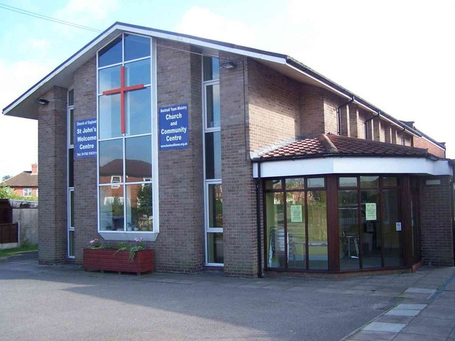 St John's parish church, Greasley Road, Abbey Hulton, Staffordshire, England, seen from the north